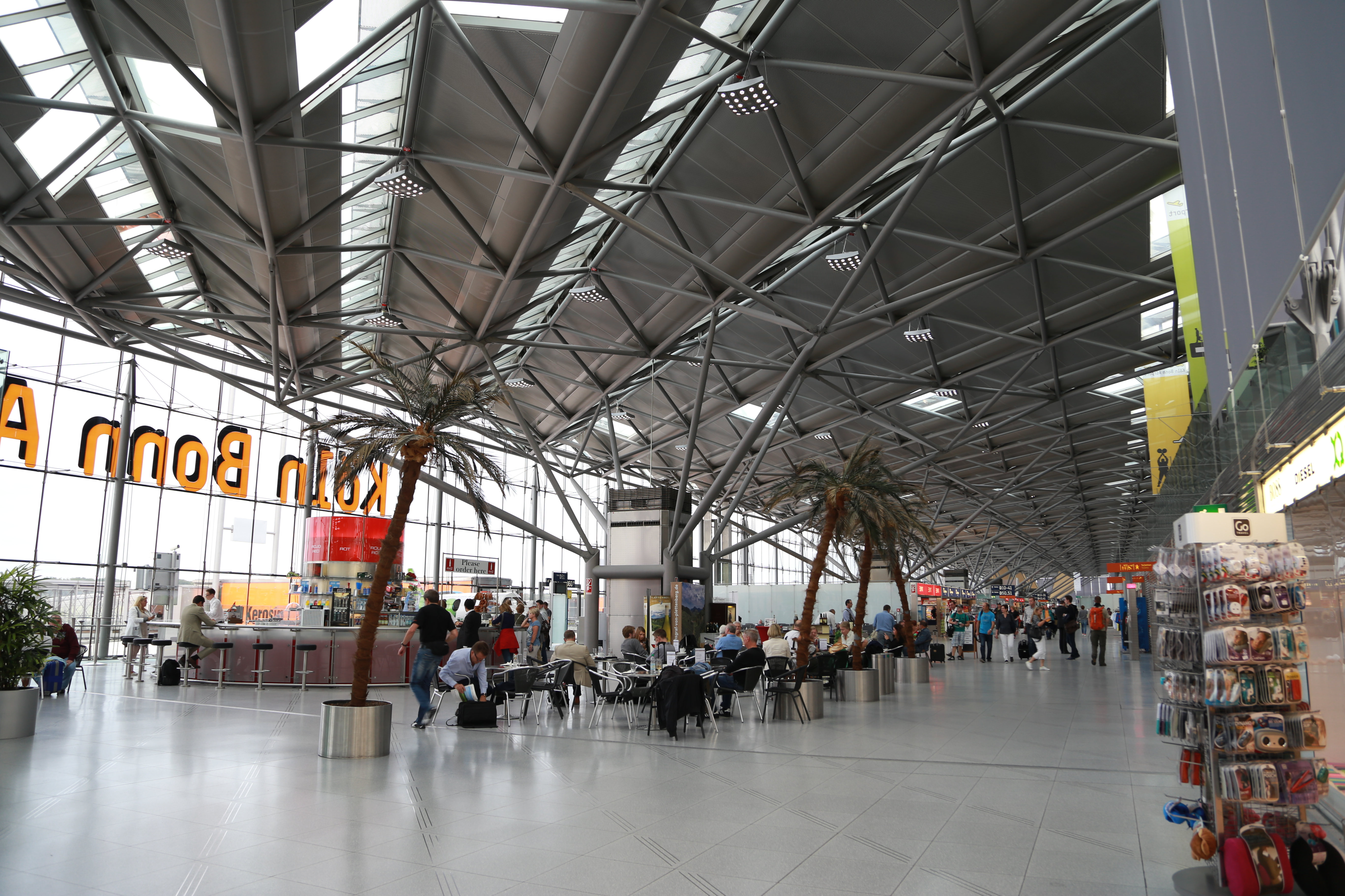 Cologne Bonn Airport Ter.2 Dept. Gate